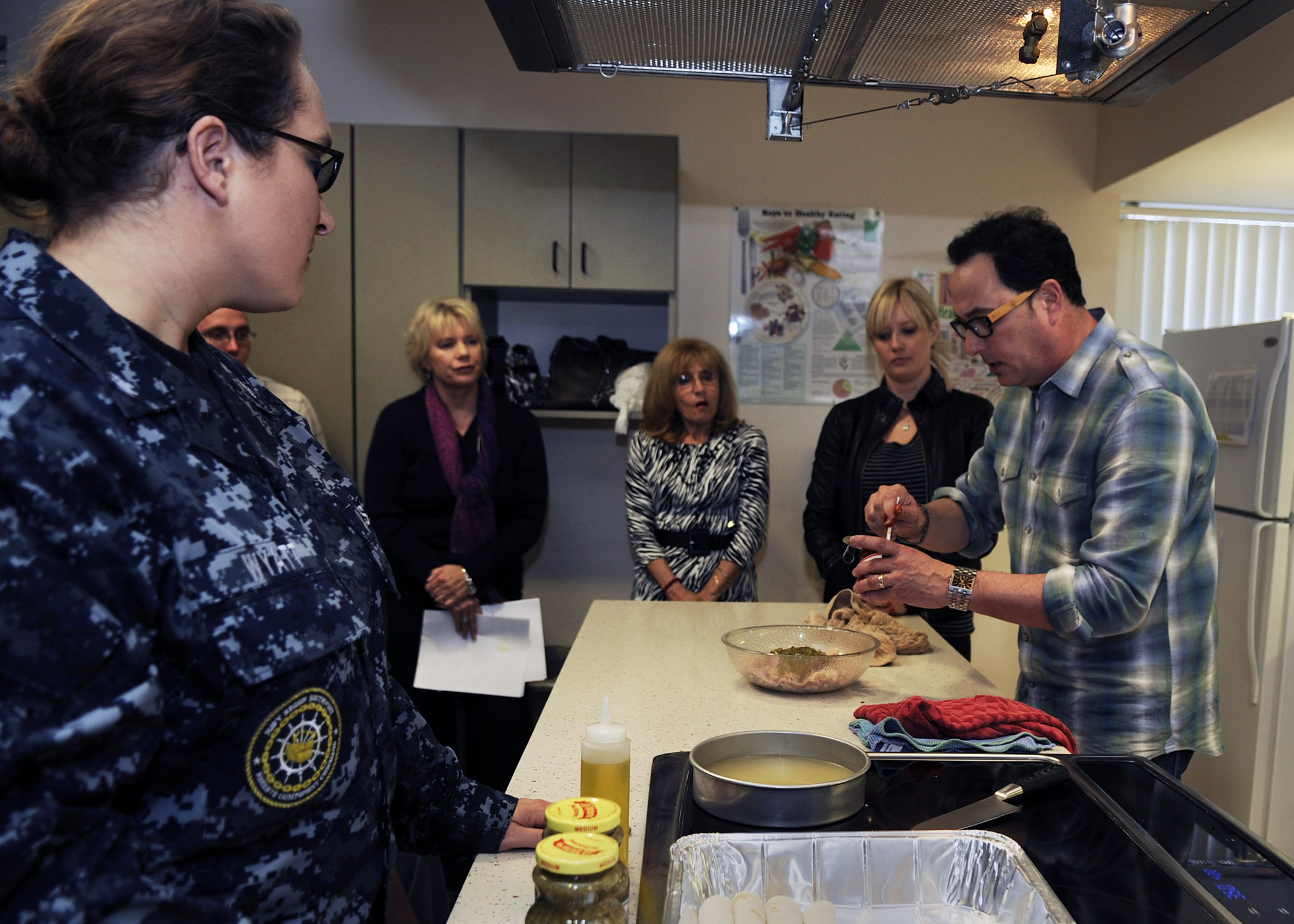 SAN DIEGO (Jan. 24, 2012) Sam Zien, also known as "Sam the Cooking Guy", mixes ingredients for chicken enchiladas during a cooking demonstration for more than 30 wounded, ill or injured service members from Naval Medical Center San Diego. (U.S. Navy photo by Mass Communication Specialist 3rd Class Jessica L. Tounzen/Released)